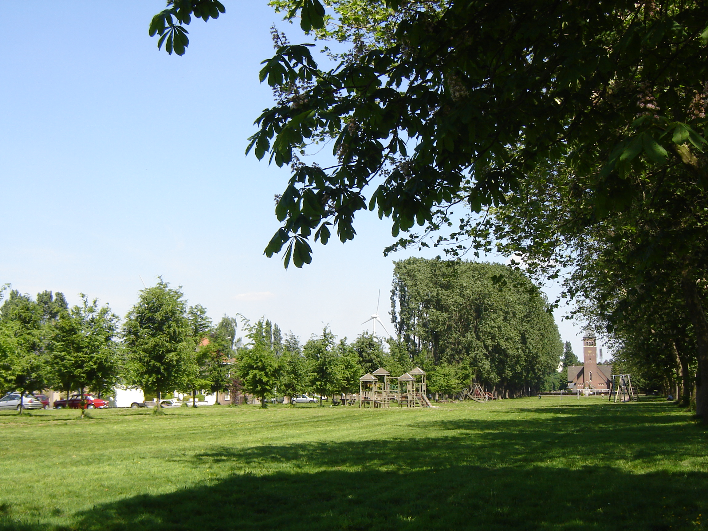 Doornzele Dries square, with church, in Doornzele. Doornzele, Evergem, East Flanders, Belgium